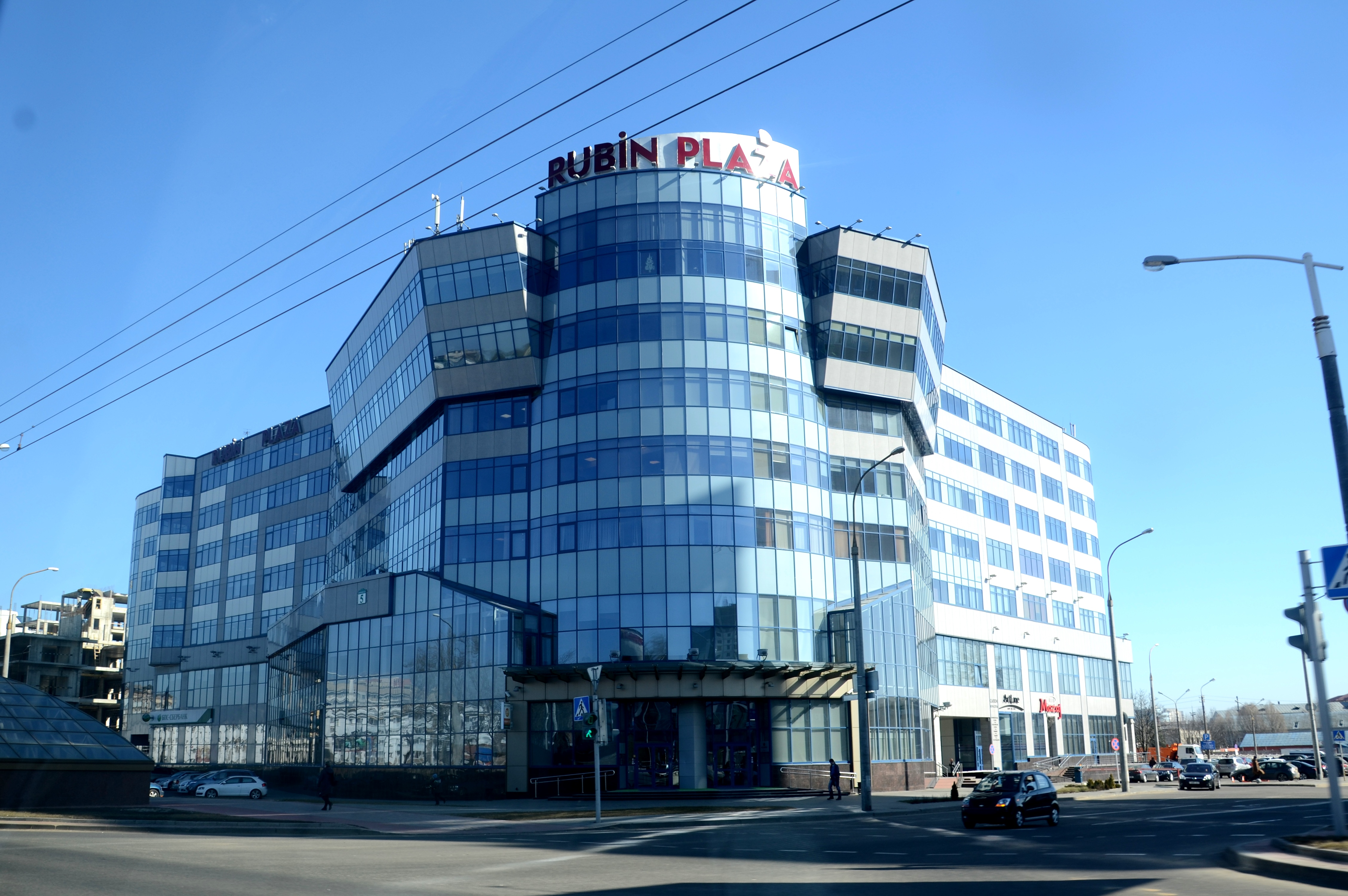 Business Centre Rubin Plaza on Dzerzhinski Avenue in Minsk